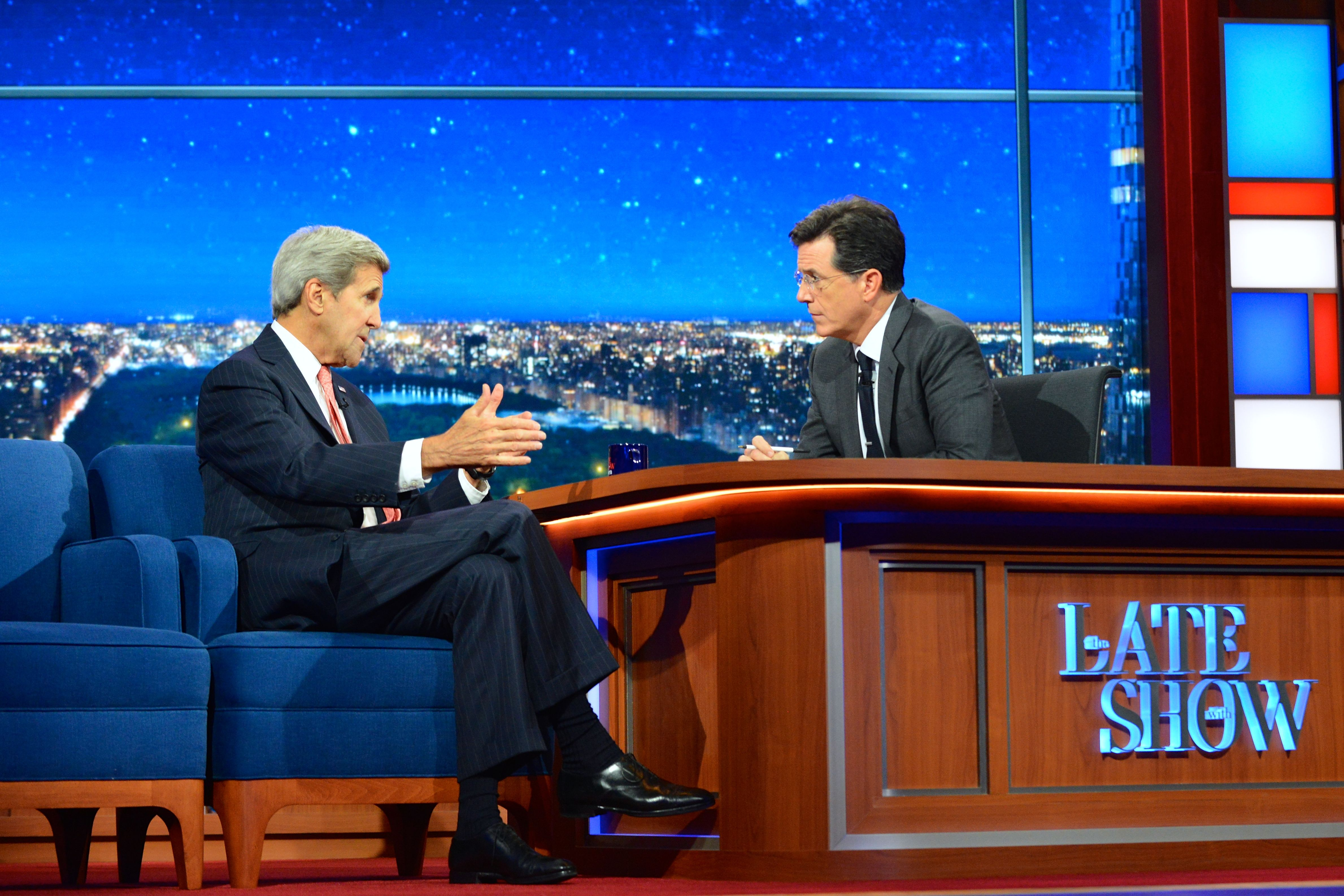 U.S. Secretary of State John Kerry makes an appearance on The Late Show with Stephen Colbert to discuss global affairs in New York City on October 1, 2015. [State Department photo/ Public Domain]